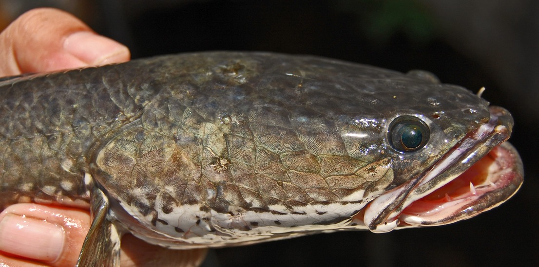 Snakehead murrel, Channa striata; head close-up. From Banyumas, Central Java, Indonesia